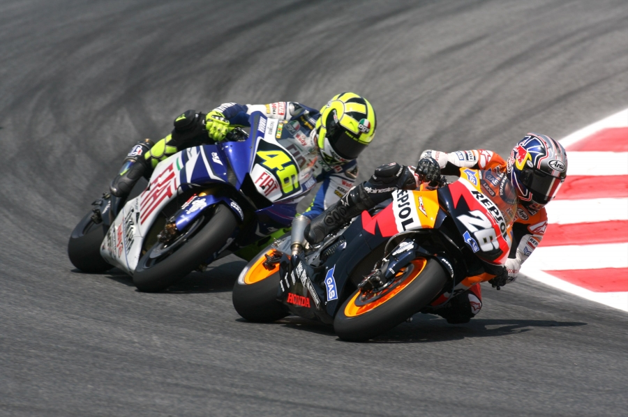 Dani Pedrosa, riding his Repsol Honda, being closely followed by the FIAT Yamaha of Valentino Rossi at the 2007 Catalan Grand Prix.